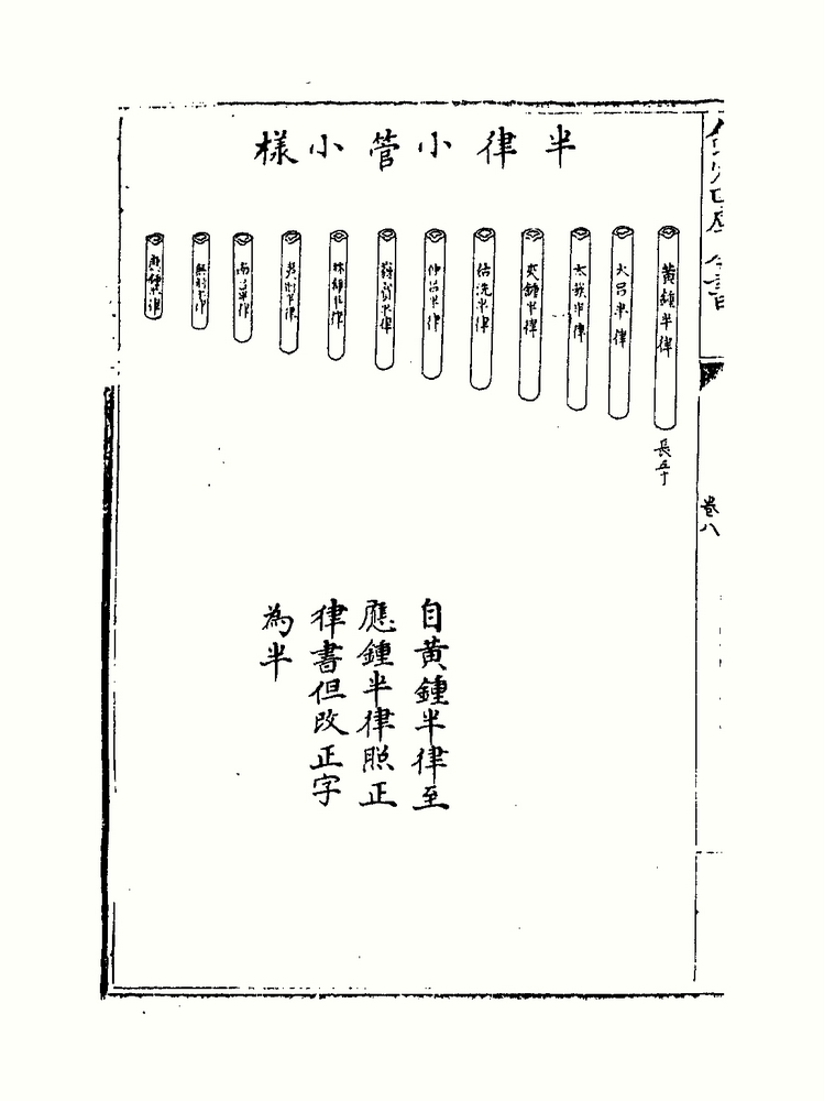 Zhu Zaiyu equal temperament treble pitch pipes